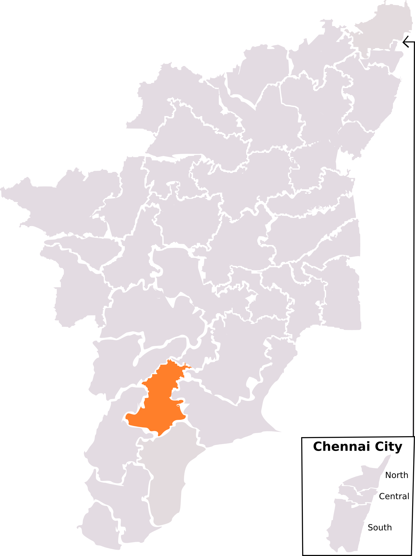 Lok Sabha Election map for Tamil Nadu. Map is drawn using Inkscape and is based on ECI website.